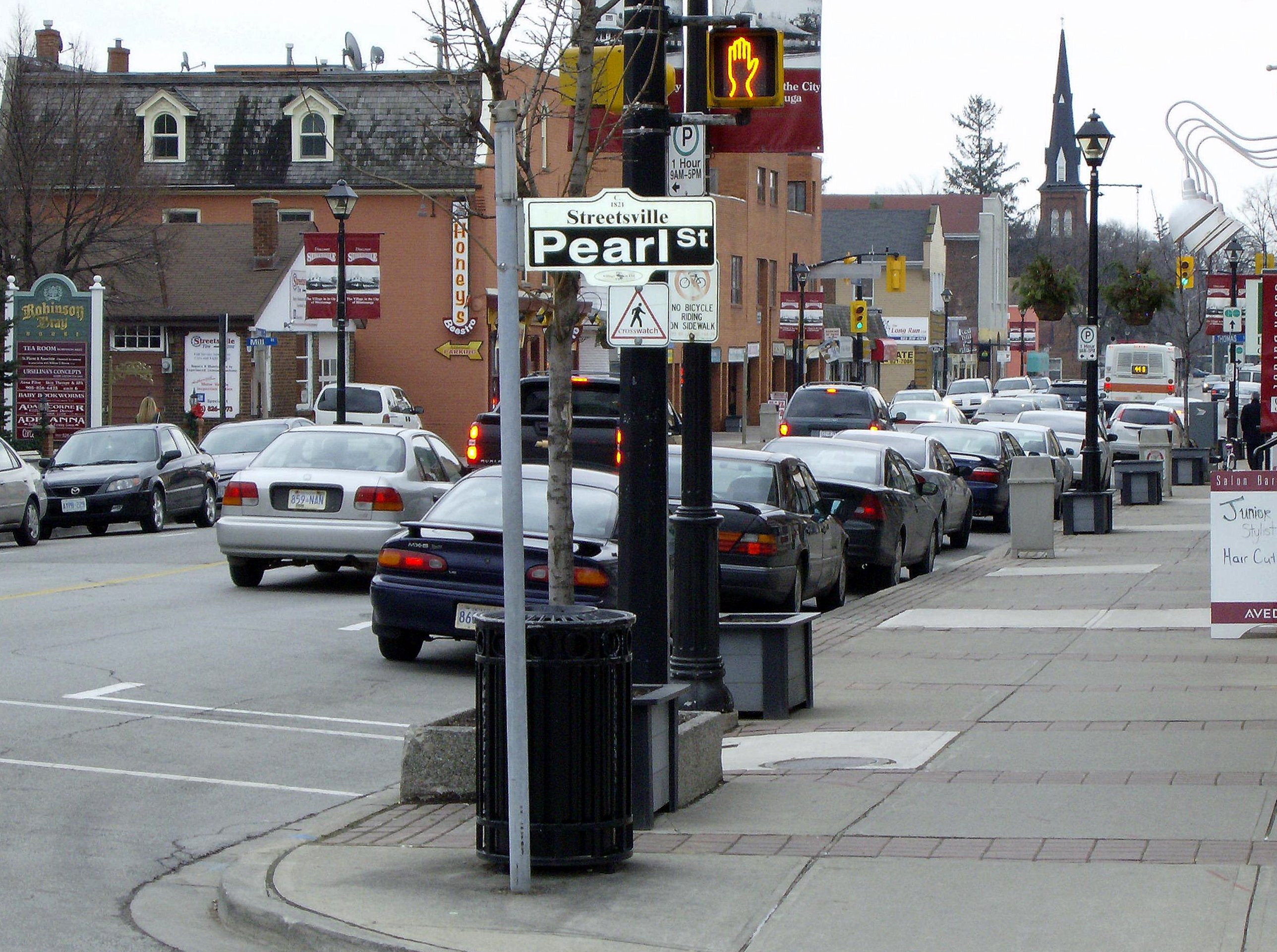 Queen Street in Streetsville Ontario Canada.